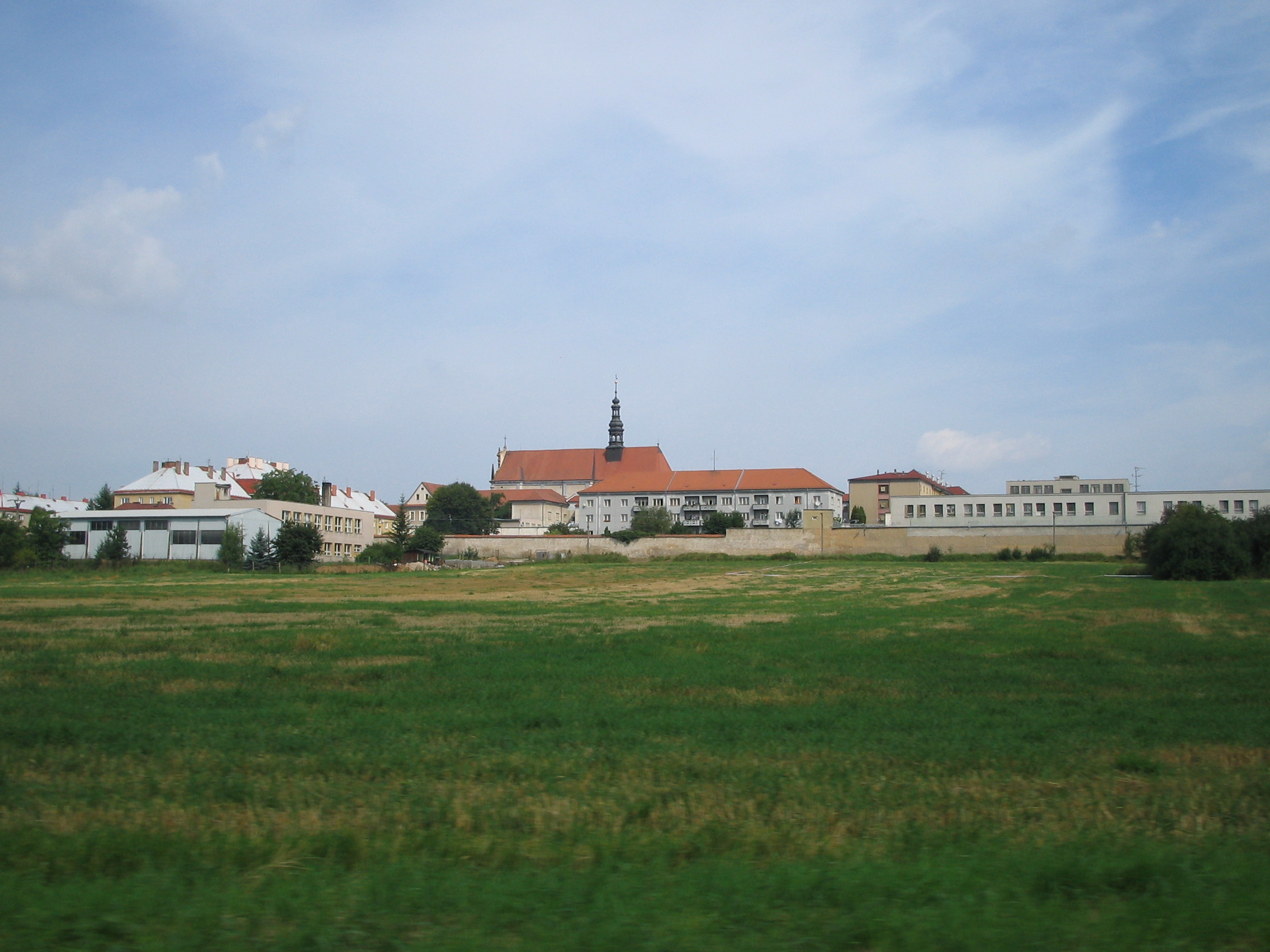 Valdice taken from south